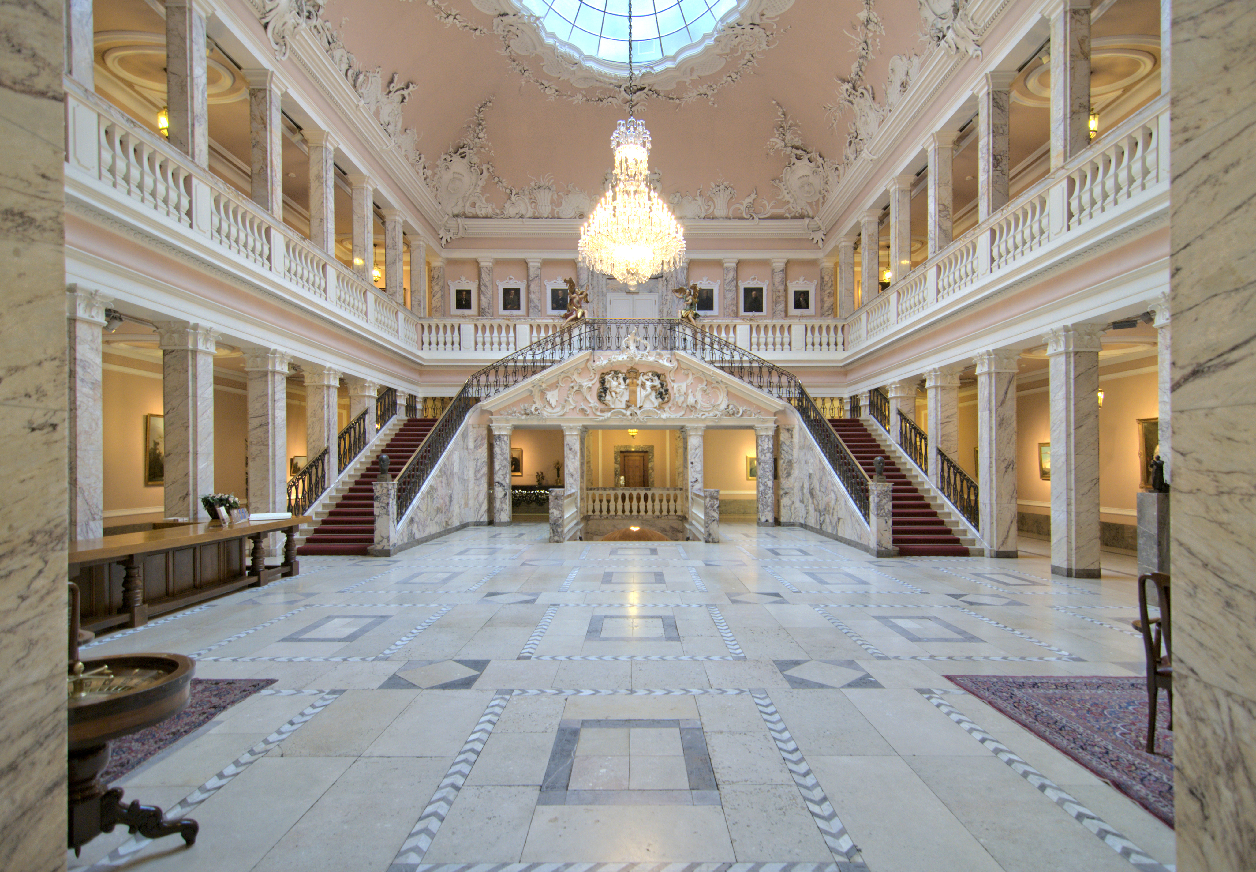 Henkell, Wiesbaden; entrance Marble Hall